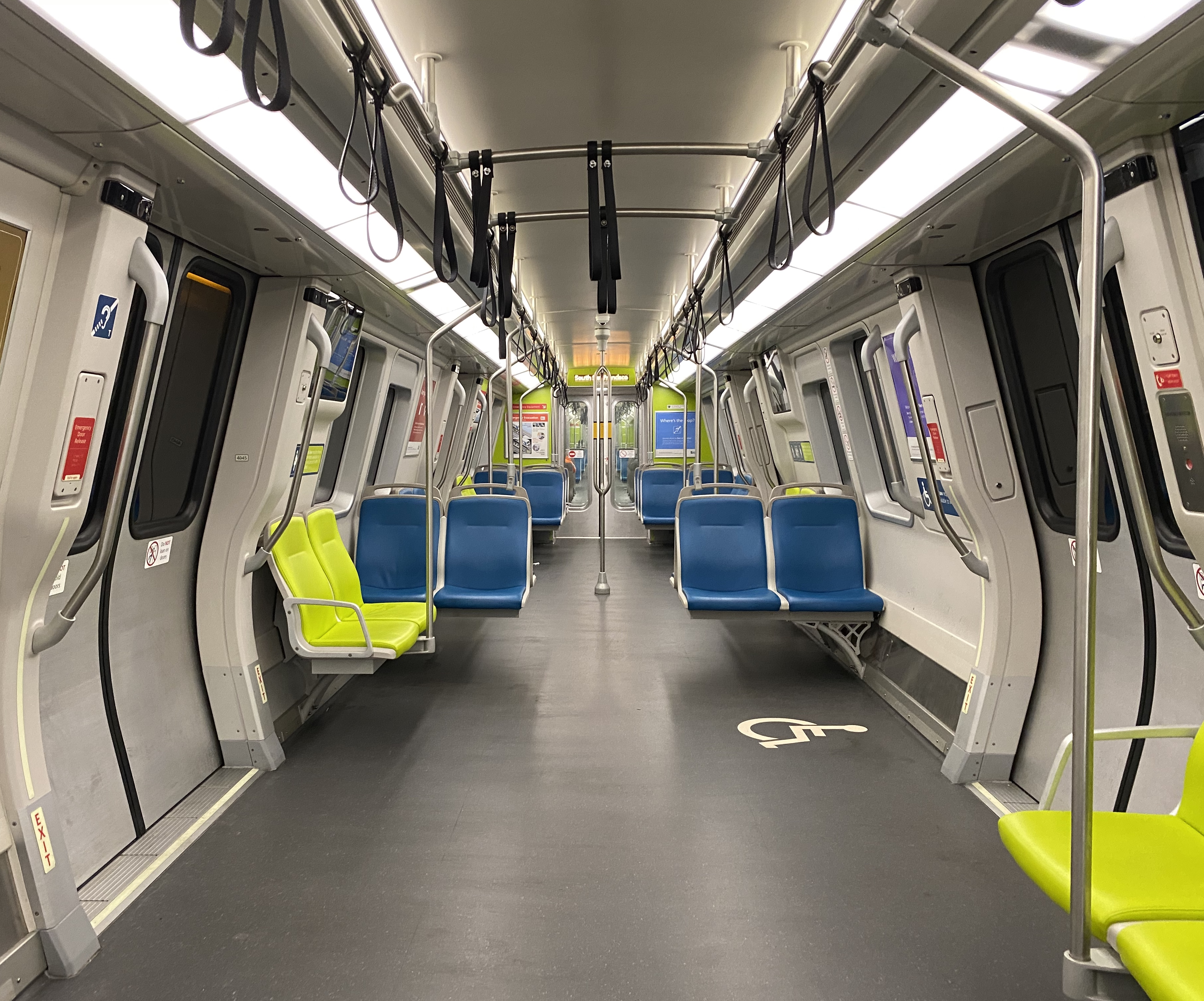 An empty train car on the Antioch–SFO/Millbrae line of Bay Area Rapid Transit.